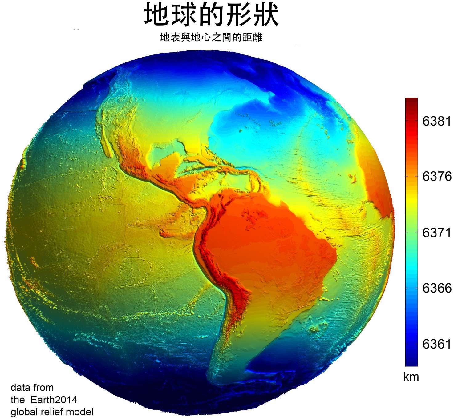 Earth shape, as given by the Earth2014 global relief model. Shown are distances between relief points and the geocentre, in Chinese